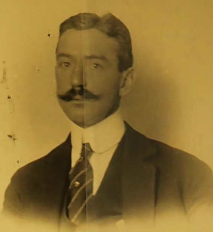 George Anderson Gordon, diplomatic passport photo, 1920